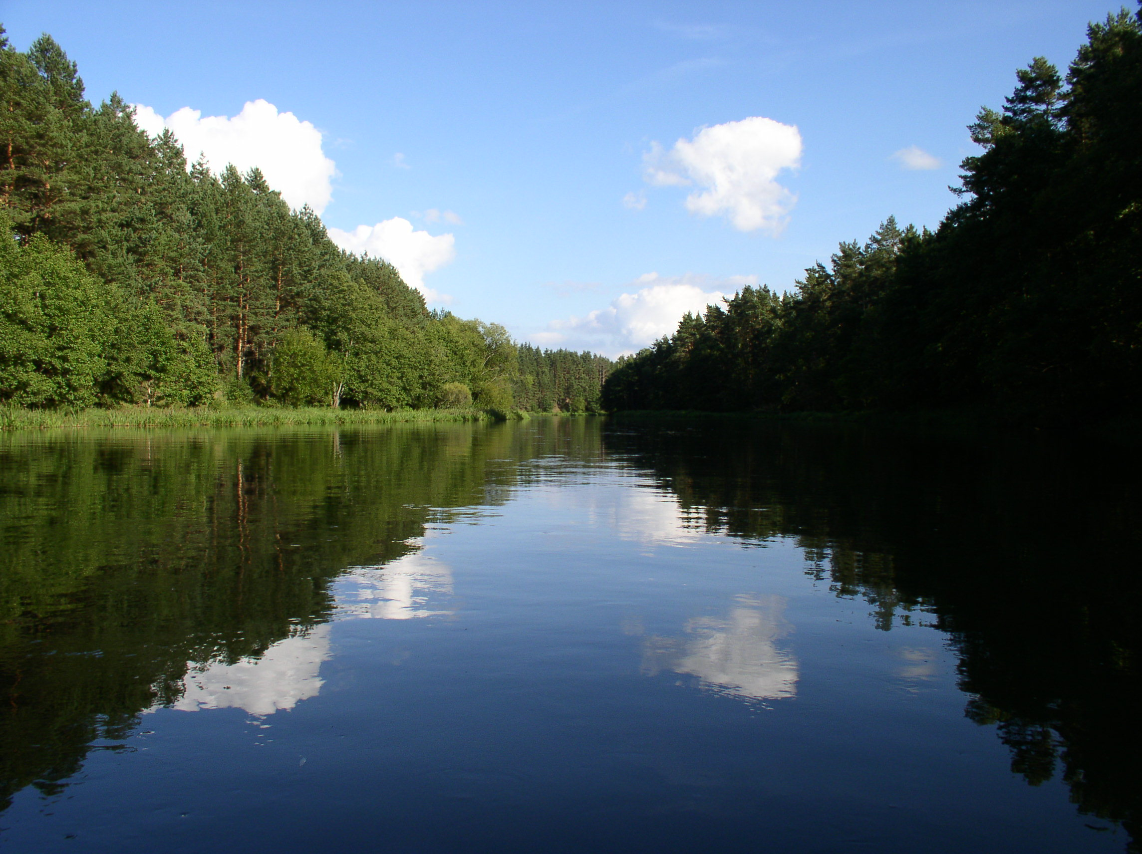 Viliya River, Belarus.